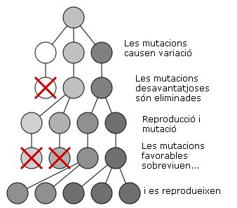 Mutation and selection diagram with tags in Catalan